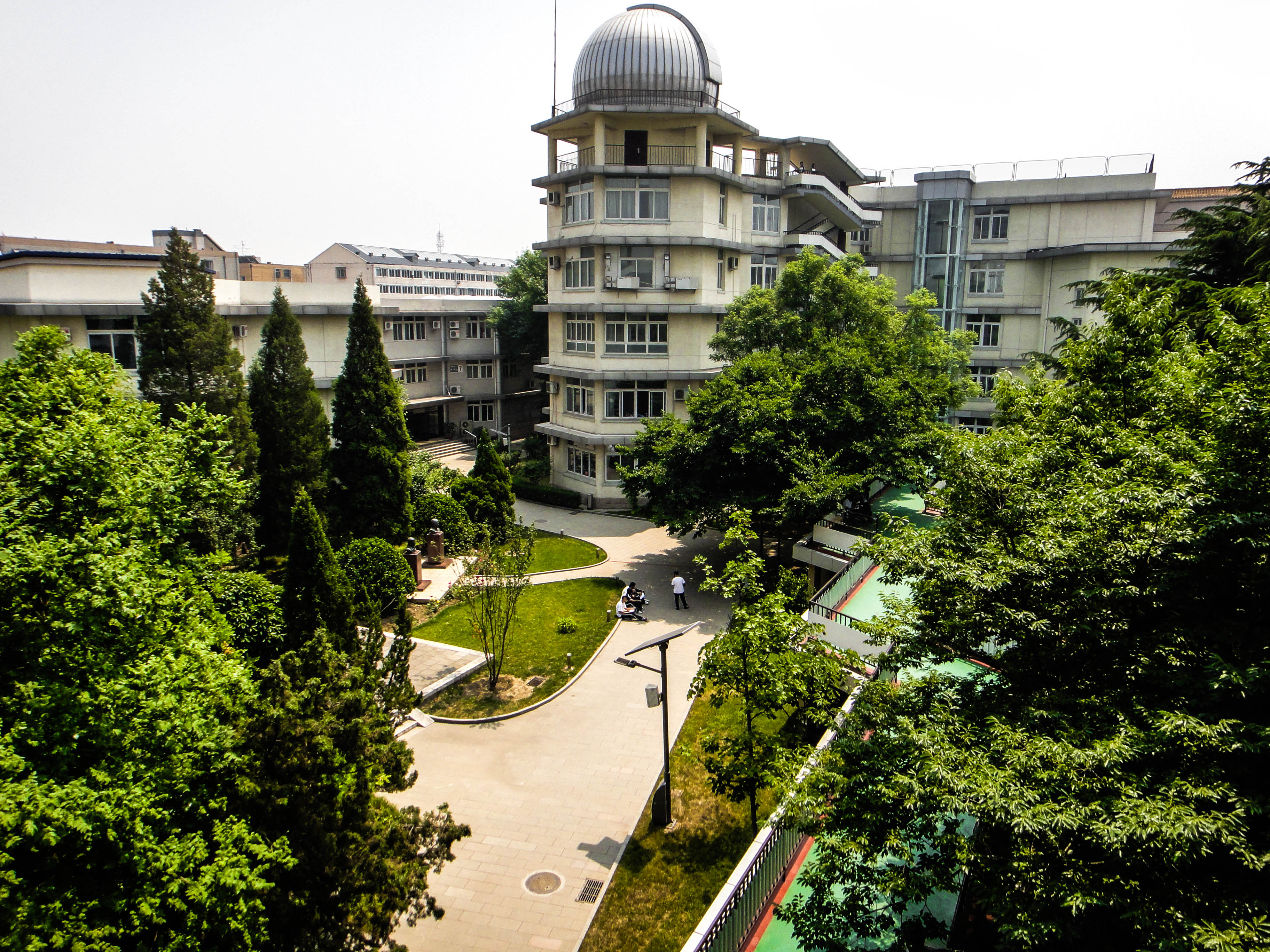 BHSF Main Campus